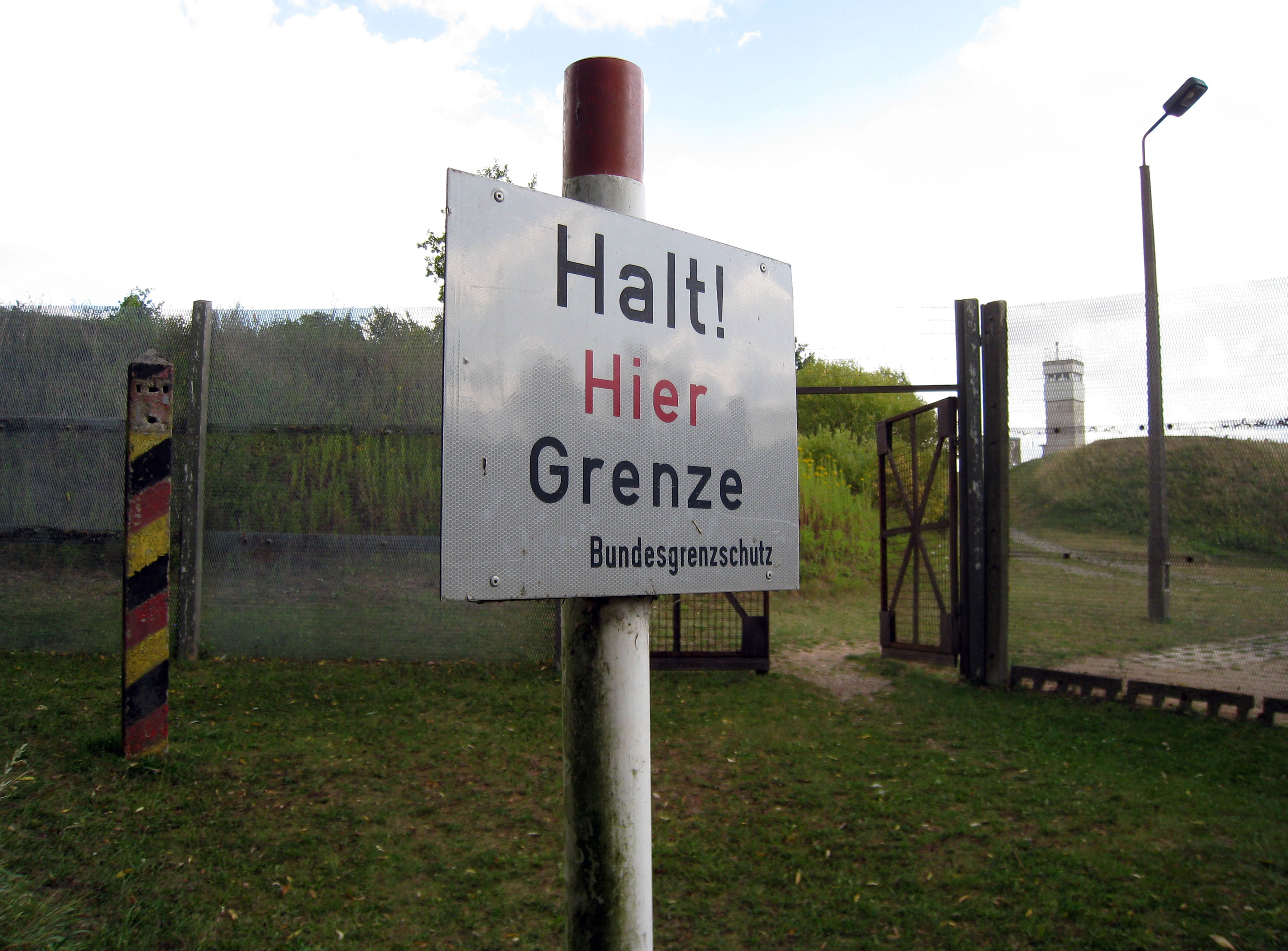 Preserved elements of the inner German border at Schlagsdorf, Mecklenburg-Vorpommern